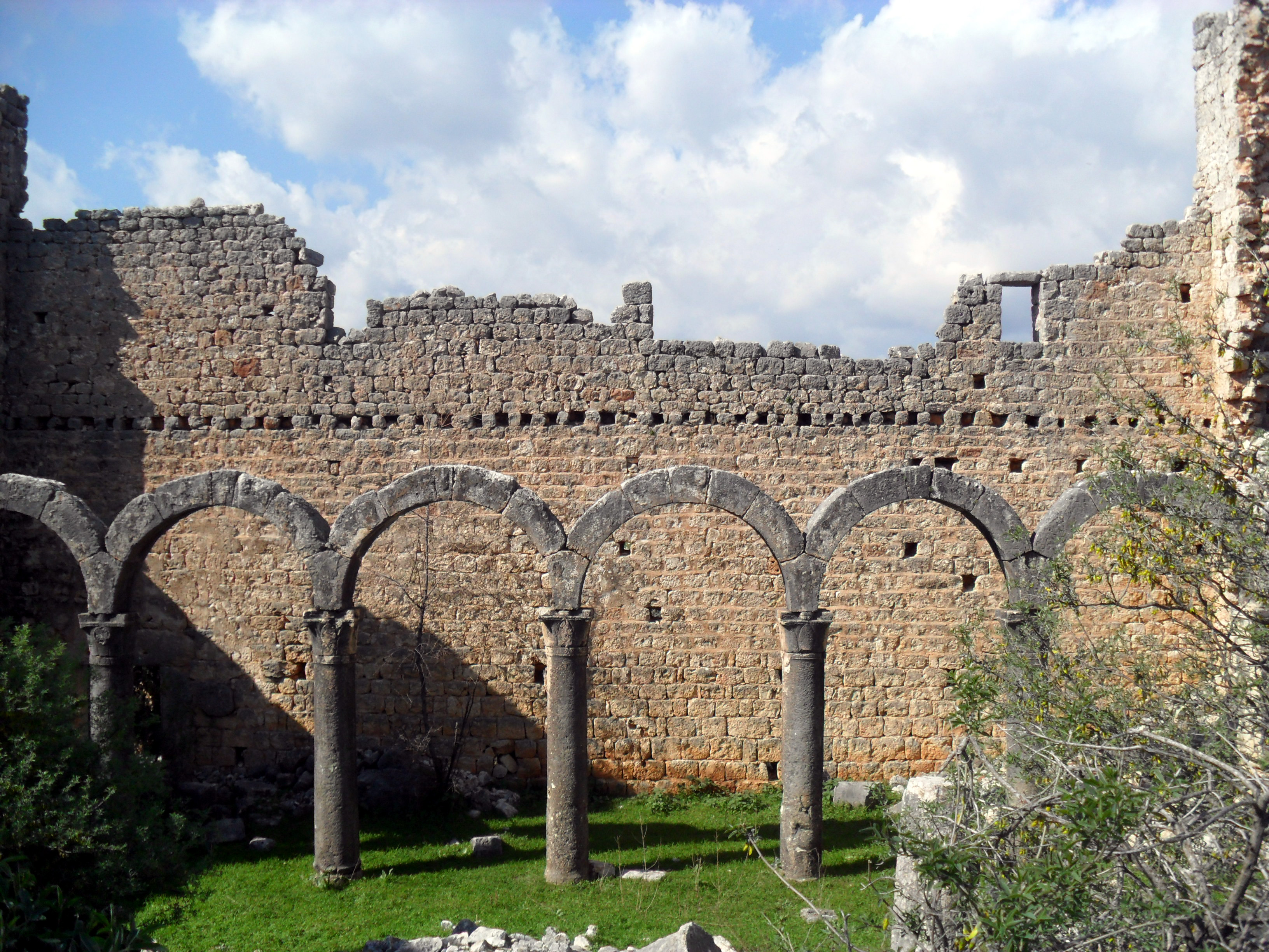 Church, Karaahmatli, Erdemli, Mersin Province, Turkey